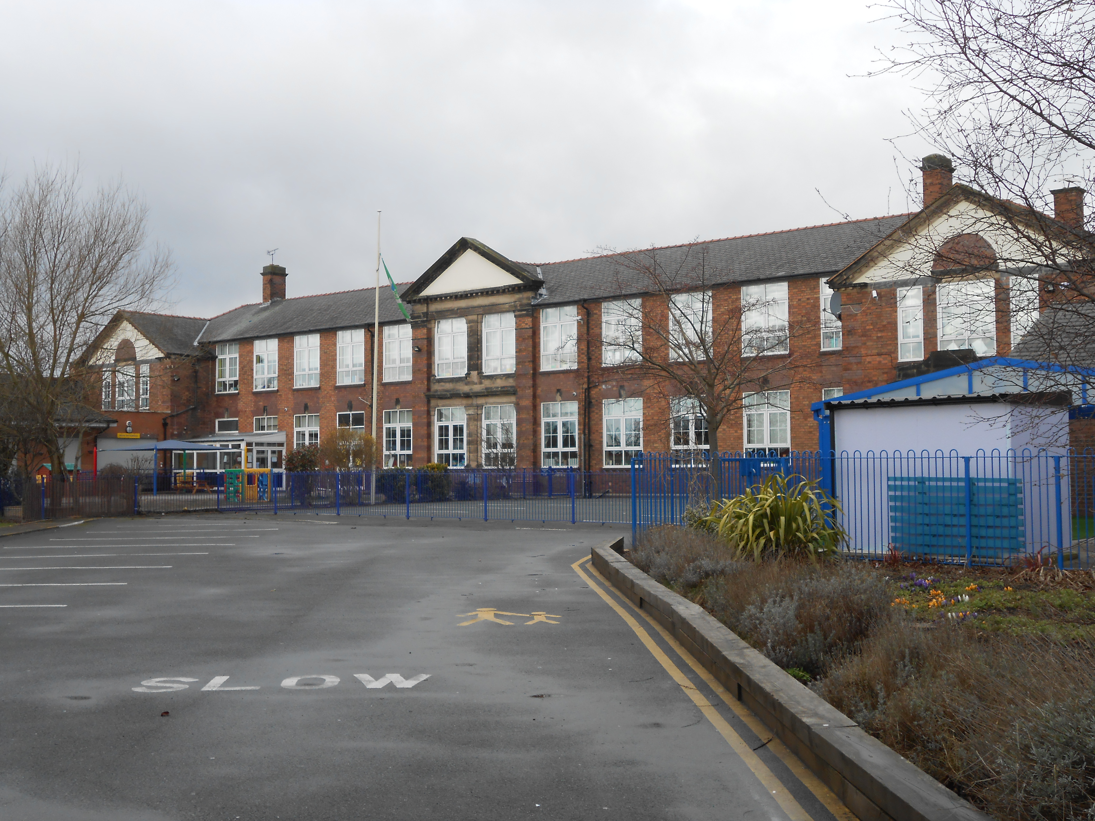 Grove Street Primary School, New Ferry, Wirral, Merseyside, England.